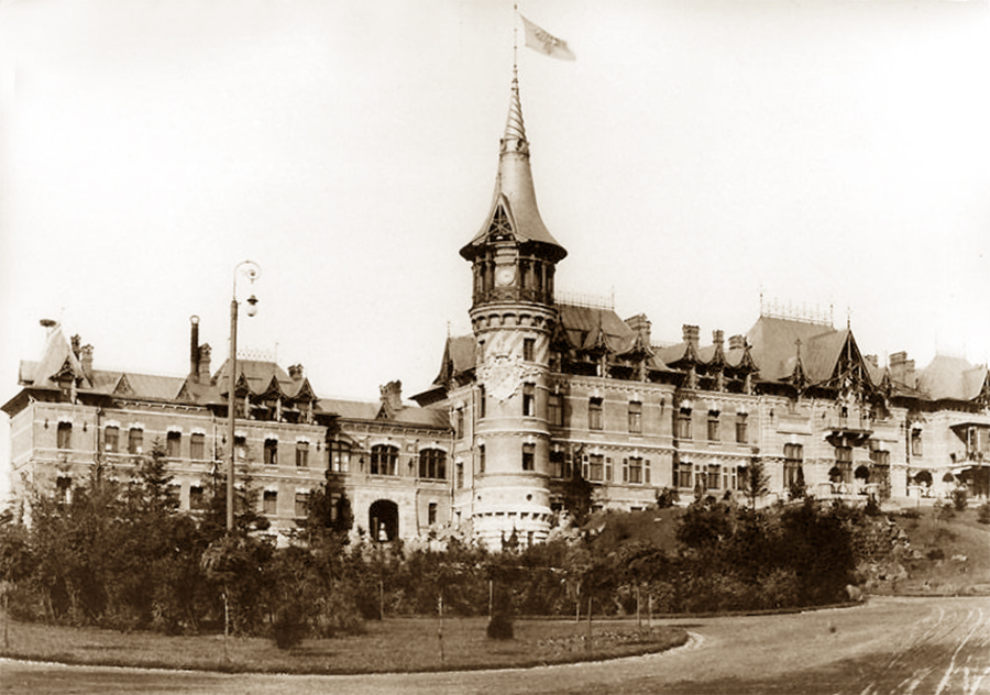 the former palace of Russian emperors in the Polish village Białowieża, Poland. A view from the river Narewka